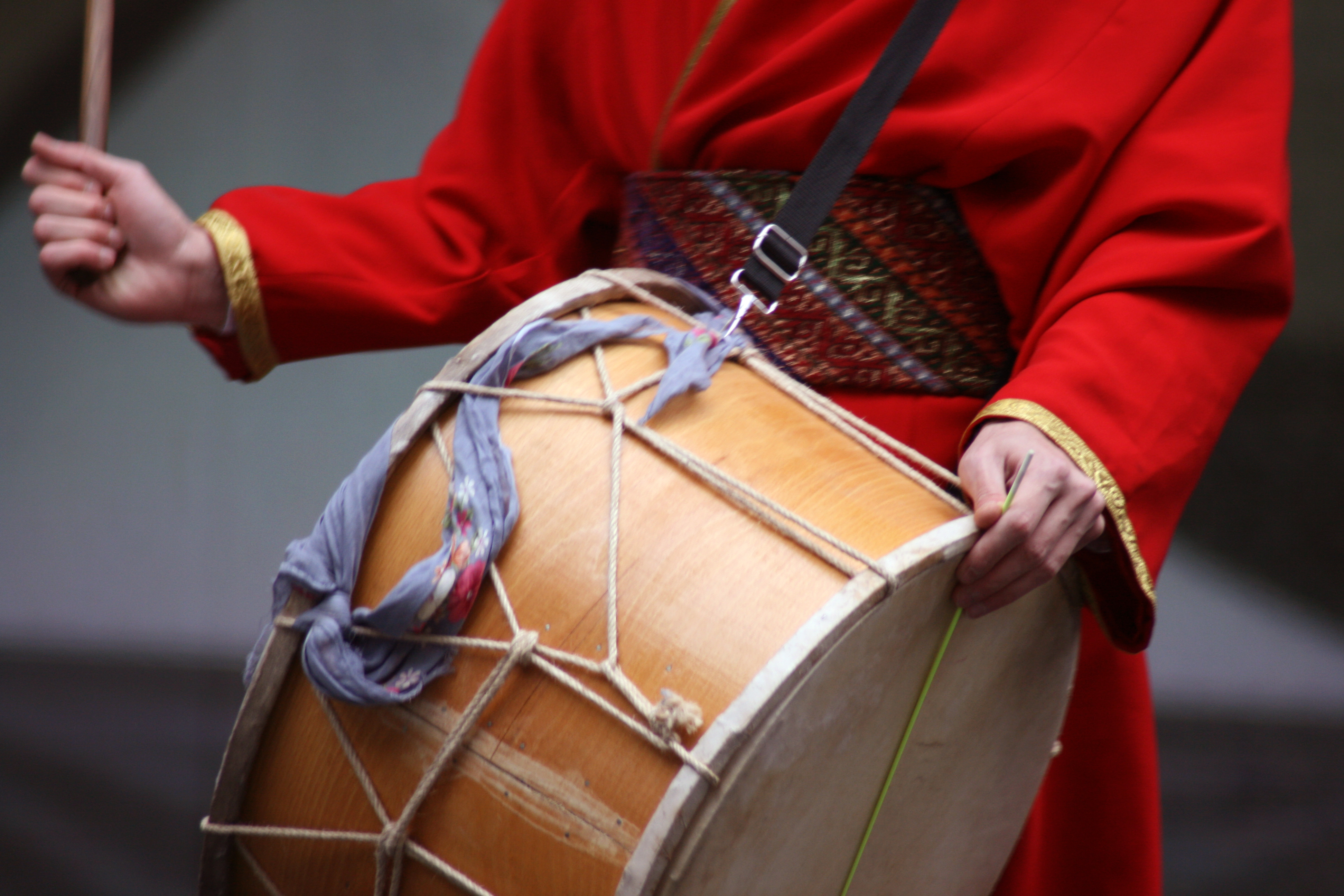 A davul player, in the Chicago Turkish Festival '09.